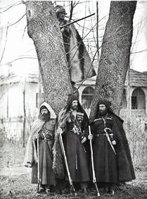 Caucasus: The Mingrelians. Image description: Kavkaz. Mingrel'tsy. Aragonés: Mingrelians